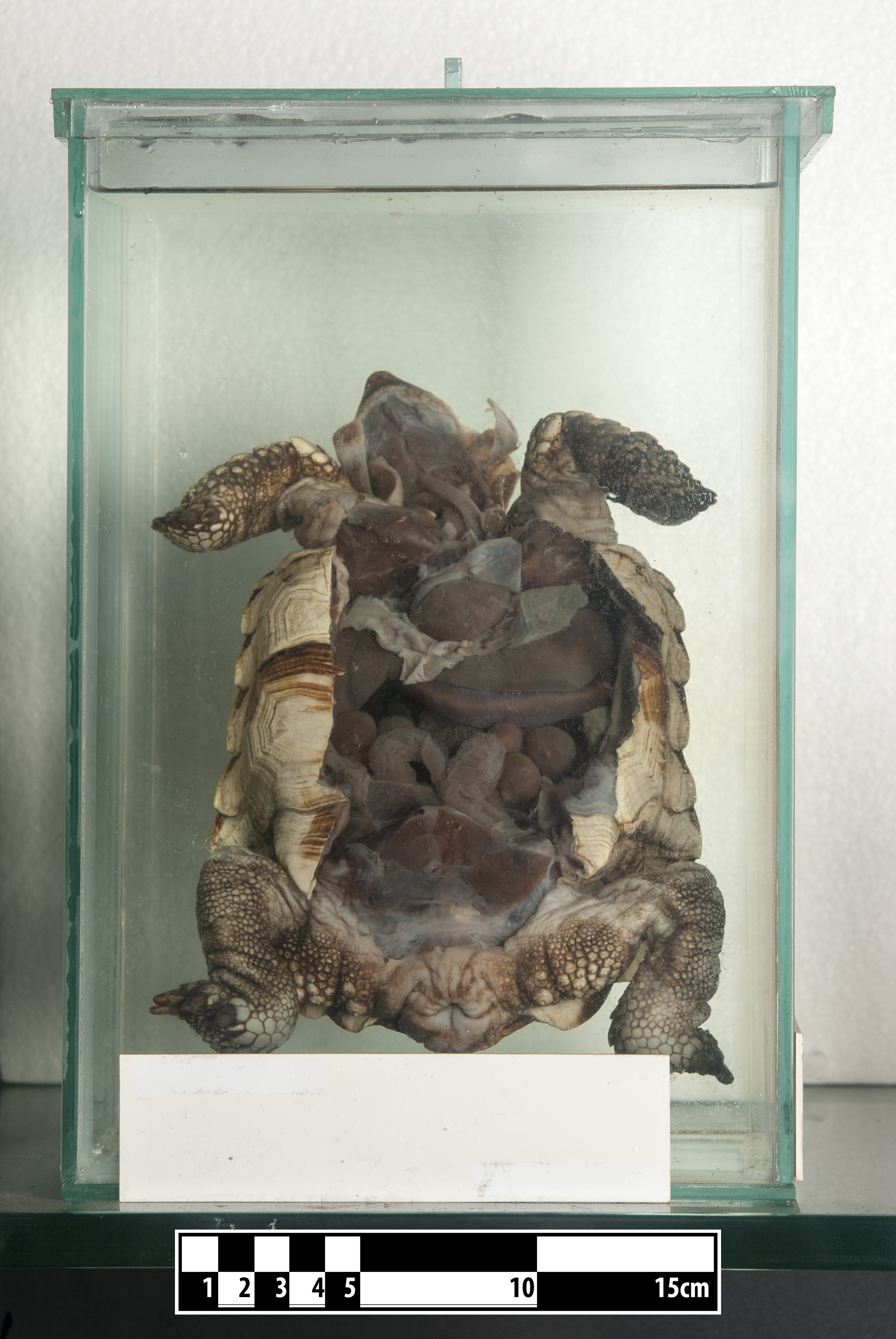 Turtle showing organs topography. Cheloniidae Technique of formalin fixation on display at the Museum of Veterinary Anatomy, FMVZ USP. This file was published as the result of a partnership between the Museum of Veterinary Anatomy FMVZ USP, the RIDC NeuroMat and the Wikimedia Community User Group Brasil. This GLAM project is reported. Photography: Museum of Veterinary Anatomy FMVZ USP. Author: Wagner Souza e Silva.